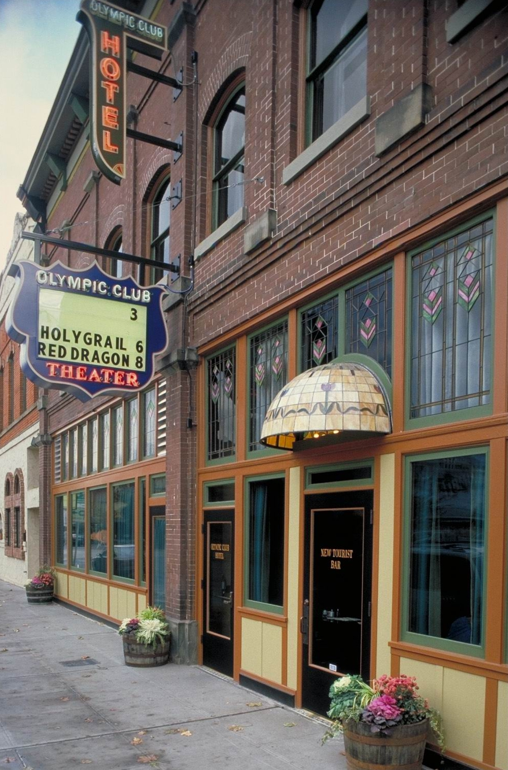 The Olympic Club Hotel is a historic hotel, owned by McMenamins Pubs & Breweries in Centralia, Washington, USA